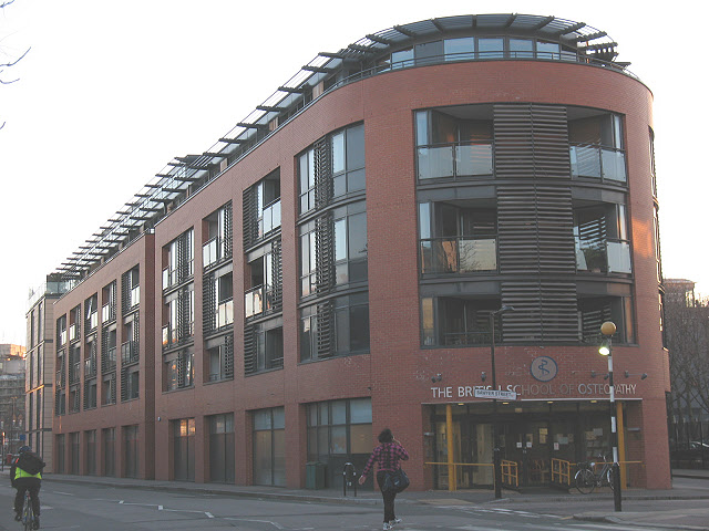 British School of Osteopathy The newish building is on the corner of Southwark Bridge Road and Sturge Street. The same organisation has another building in the same grid square: 1979747